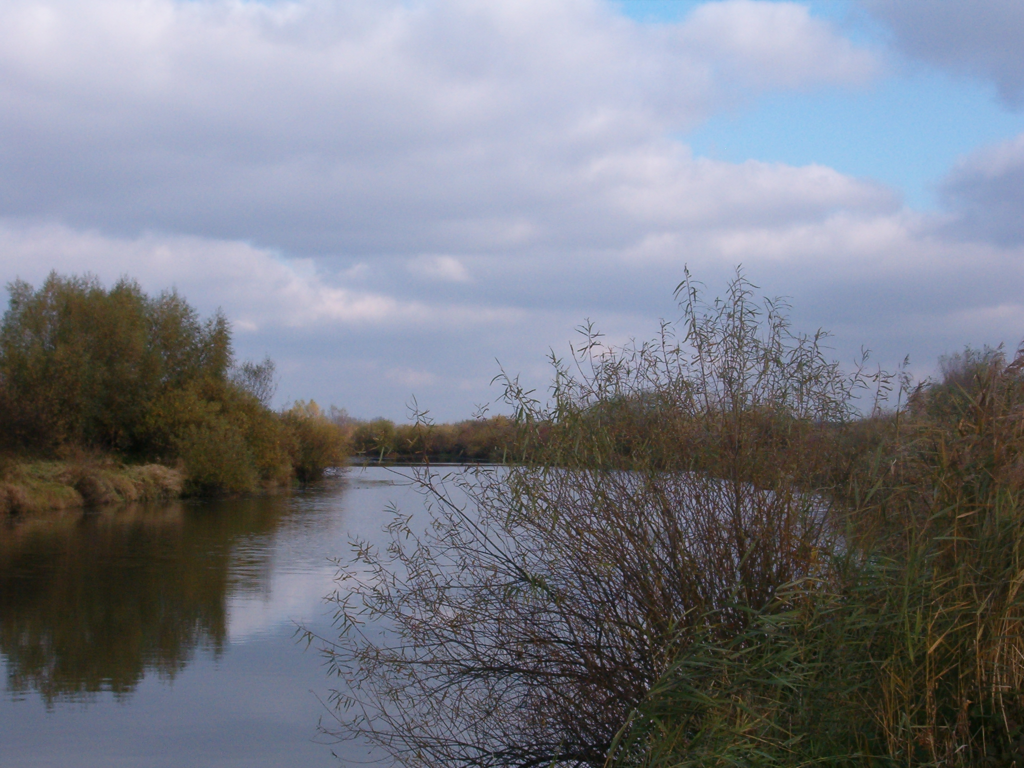 Wisła river by Dymitrów Mały